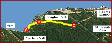 Douglas Cave and Douglas Path which runs through the nature reserve at the top of the Rock of Gibraltar